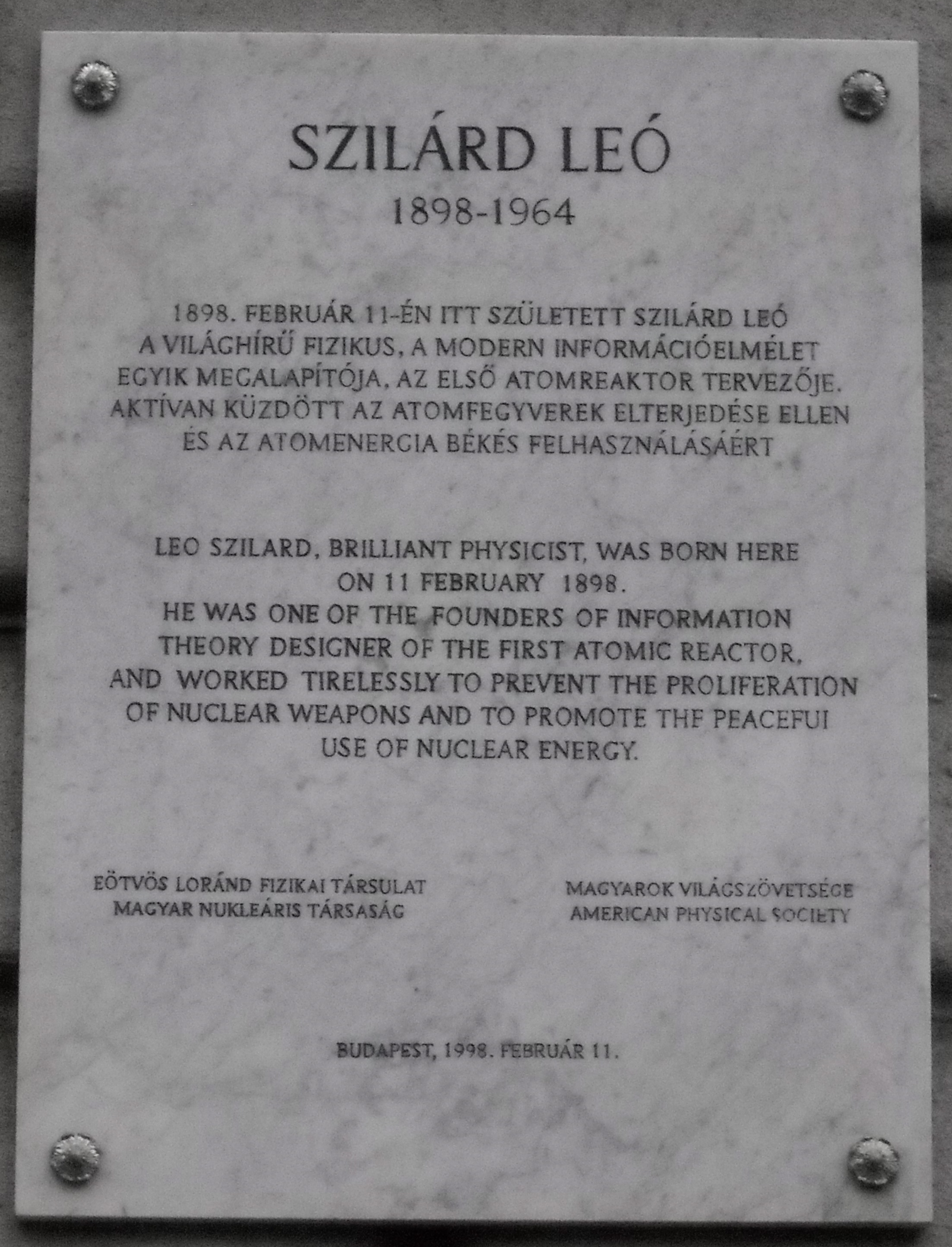 Commemorative plaque of Leo Szilard in Budapest District VI, Bajza Street No 50